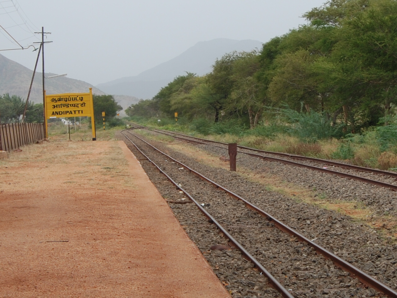 Photo of Andipatti Railway Station.